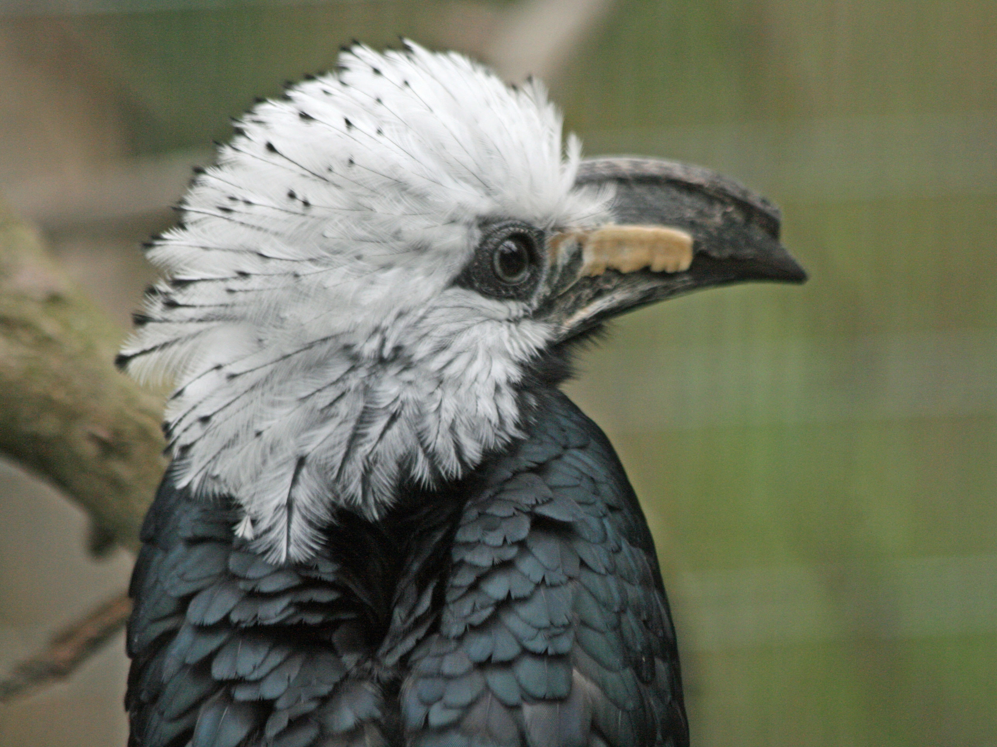 White-crested_Hornbill(Tropicranus albocristatus) - San Diego Zoo